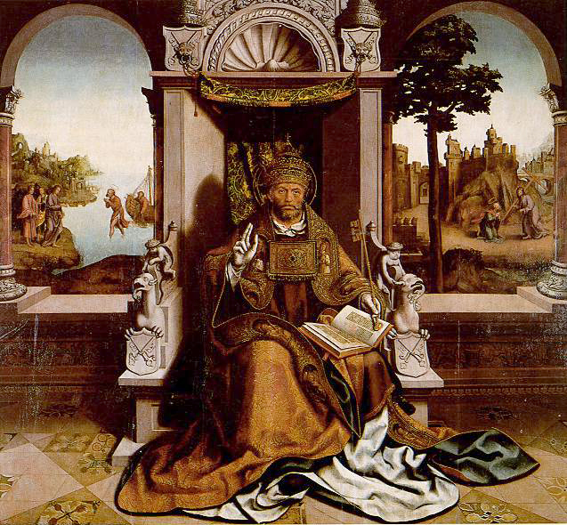 from an altarpiece of the Cathedral of Viseu